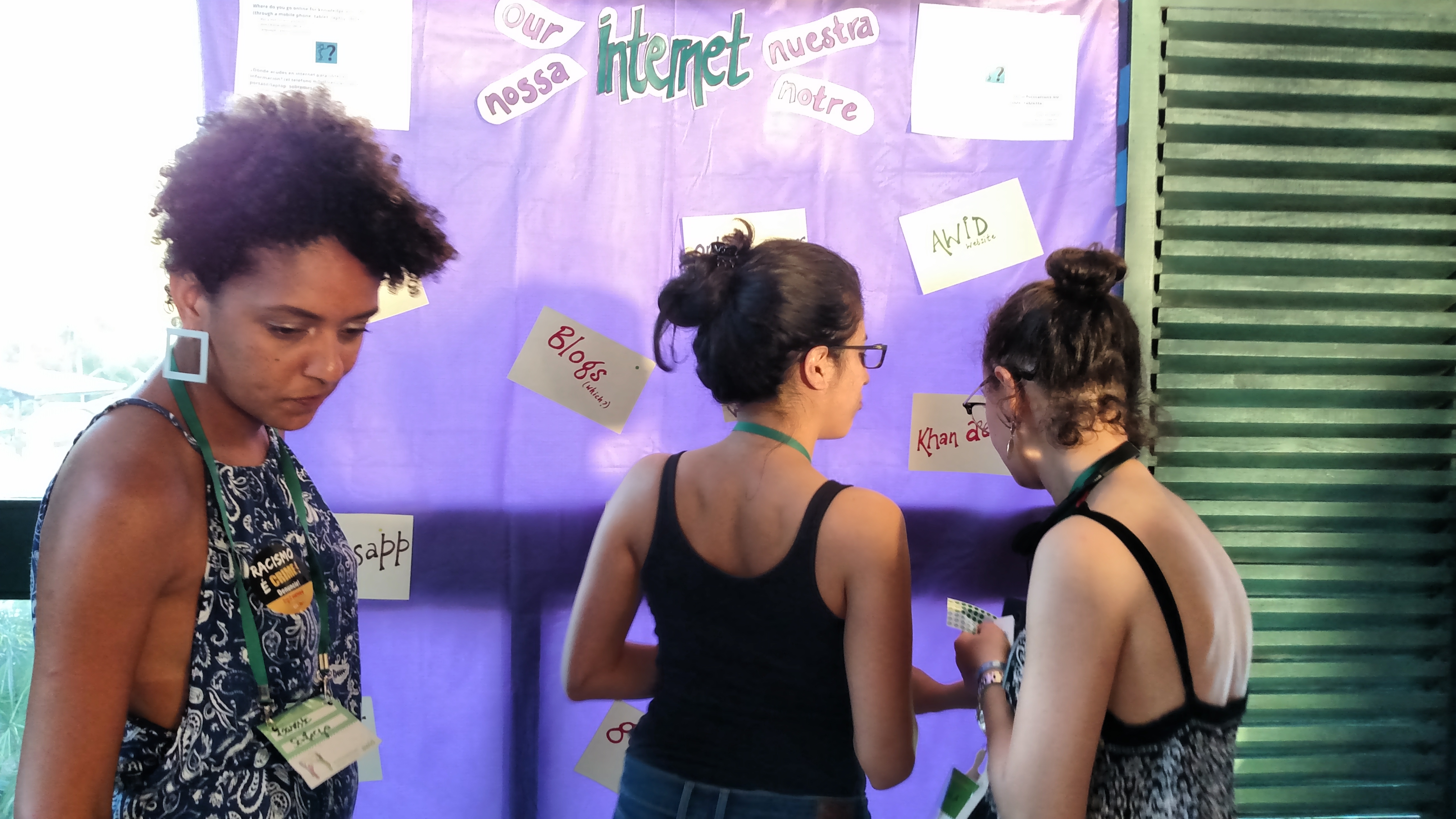 Mapping feminist knowledge on the internet at AWID Forum 2016